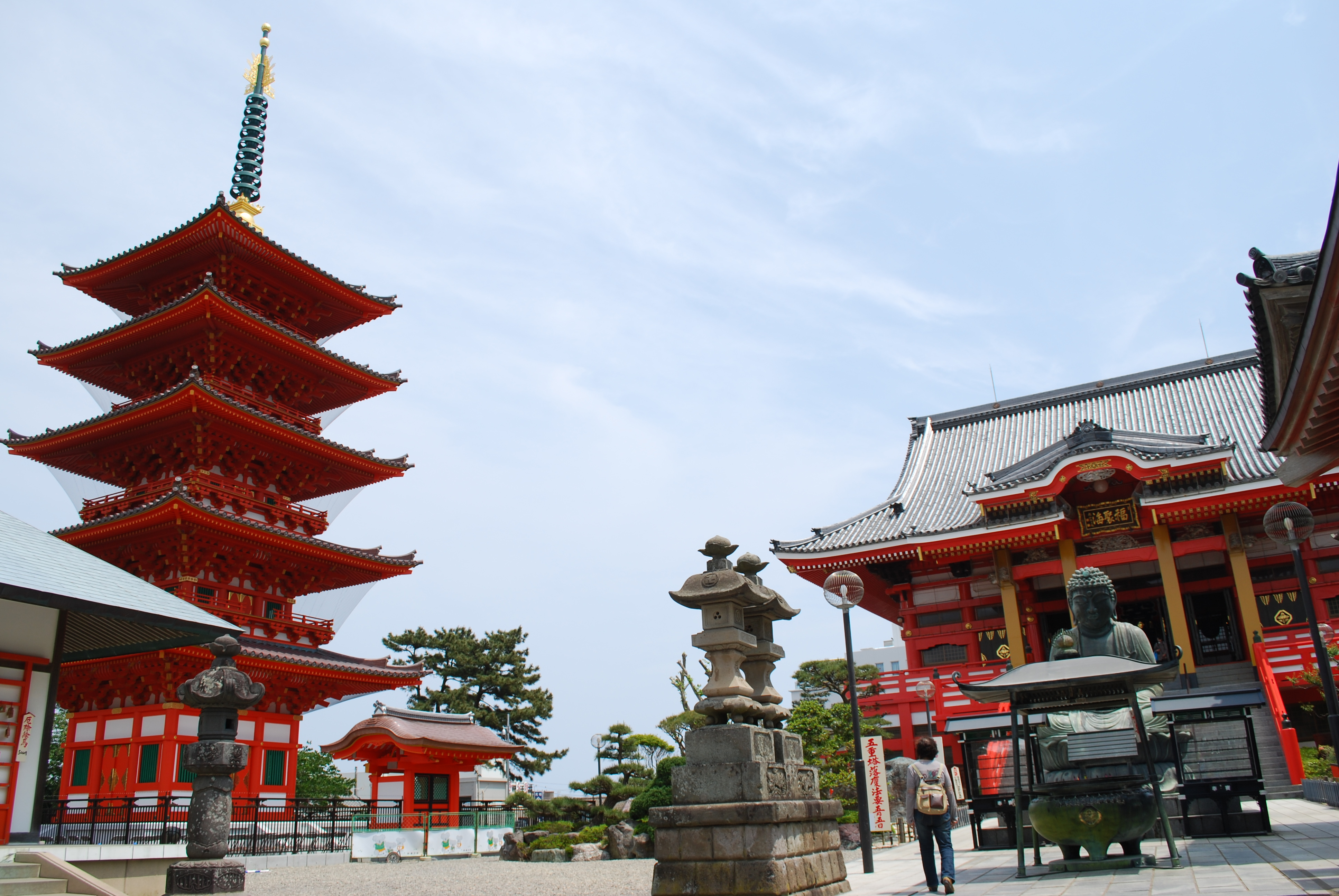 Iinuma-kannon, Enpuku-ji temple, Chōshi, Chiba prefecture, Japan